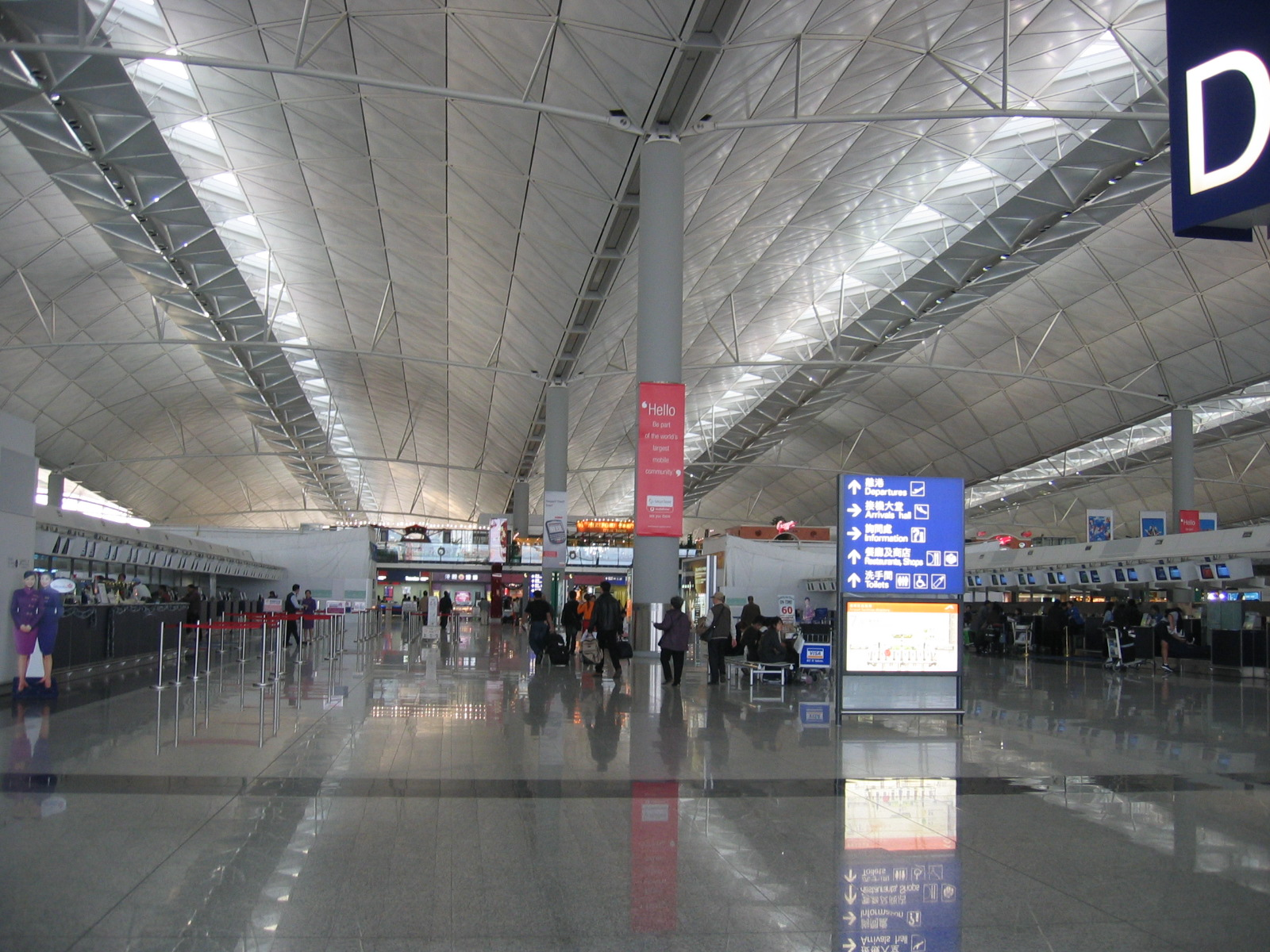 Departure Hall of Hong Kong International Airport. Taken by Terence Ong on 19 December 2005.